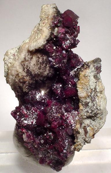 Cuprite Locality: Wheal Phoenix (Phoenix United Mine; West Phoenix Mine), Linkinhorne, Caradon & Phoenix Area (South-Eastern Bodmin Moor), Liskeard District, Cornwall, England, UK (Locality at ) A CLASSIC, sculptural, old-time Cornwall specimen of a vug filled with GEMMY, dark cherry-red cuprite crystals to 6 mm from the famous Wheal Phoenix. Ex A.G. Moss Collection. This is very rare material and although there are spots of damage here and there, there is also quite good coverage of superb crystals of the highest quality, scaterred liberally. 5.0 x 2.7 x 2.6 cm